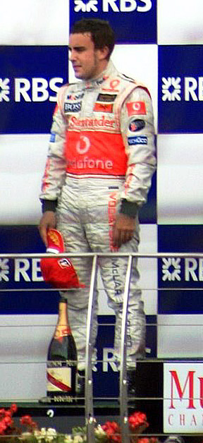 Fernando Alonso at the podium for the United States GP 2007